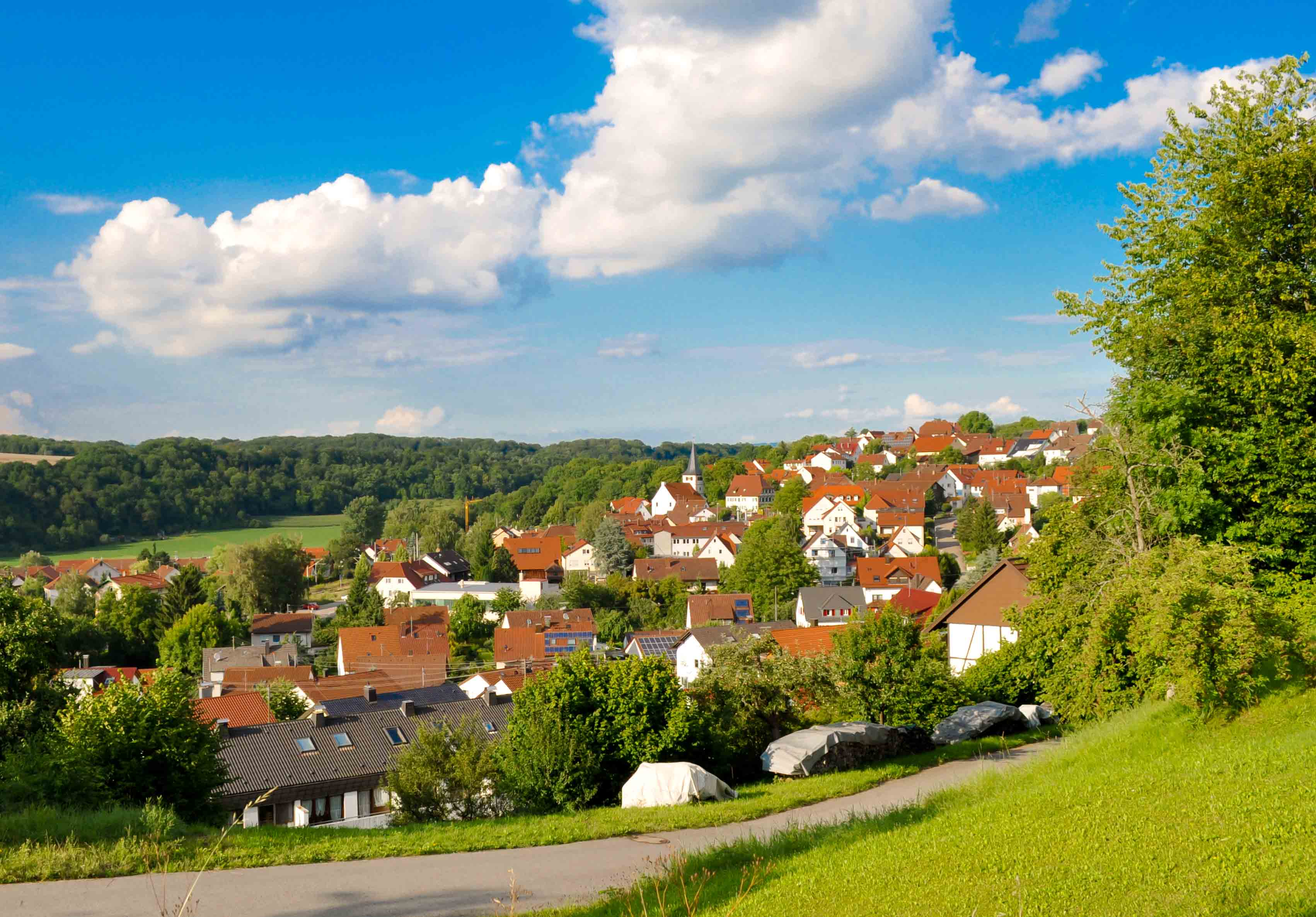 Burgstall(Murr) from Neue Siedlung